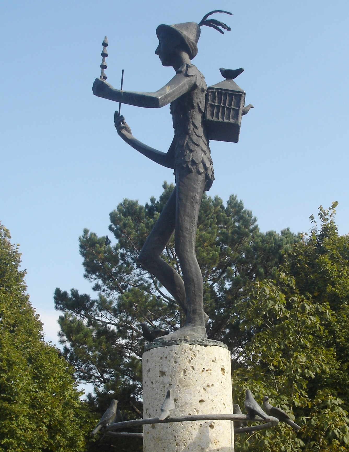 Papageno statue in Kurpark Oberlaa